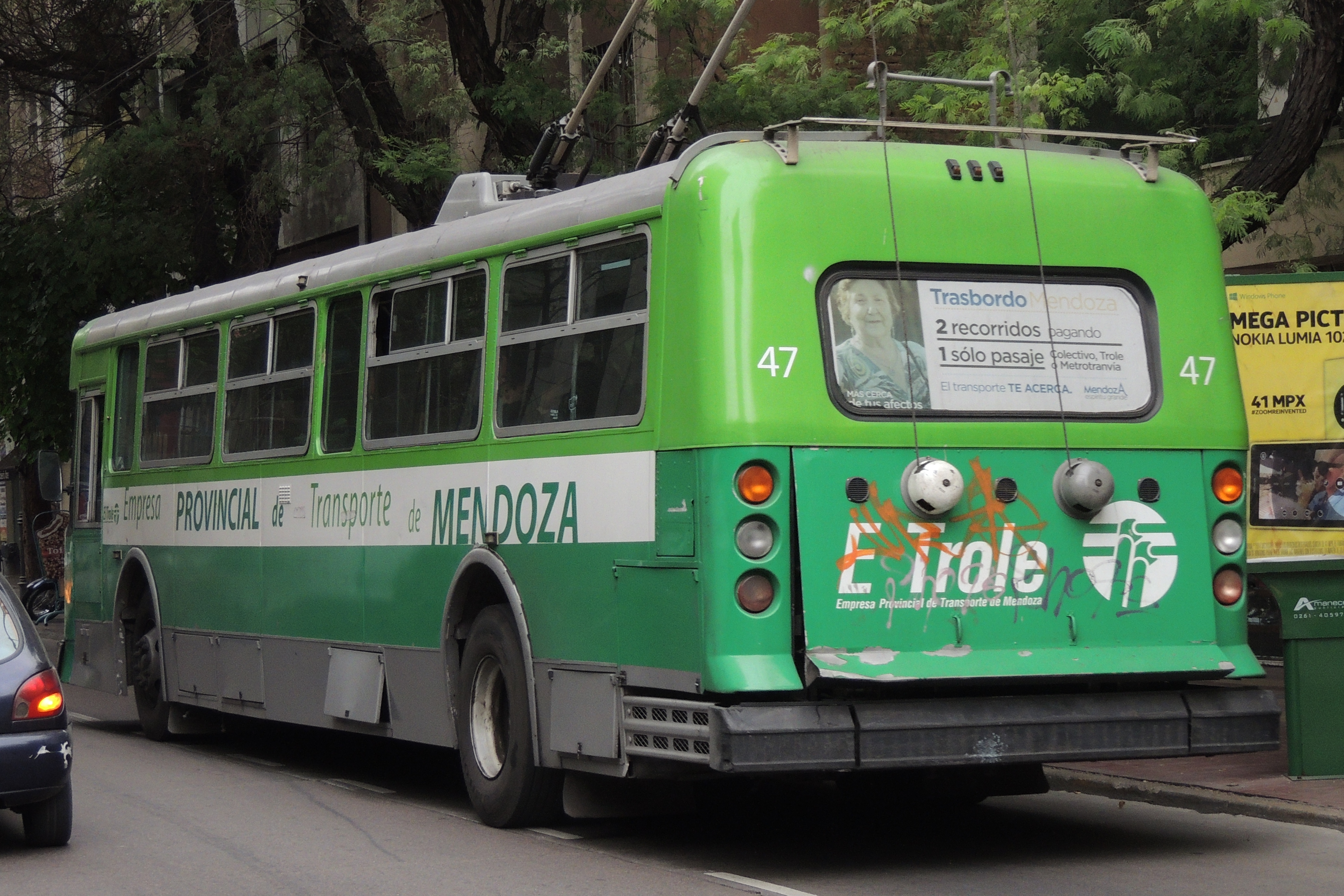 Trolleybus No. 47, in Mendoza, Argentina, is ex-Vancouver 2893, a 1983 Flyer E902 trolleybus acquired by Mendoza in 2008.